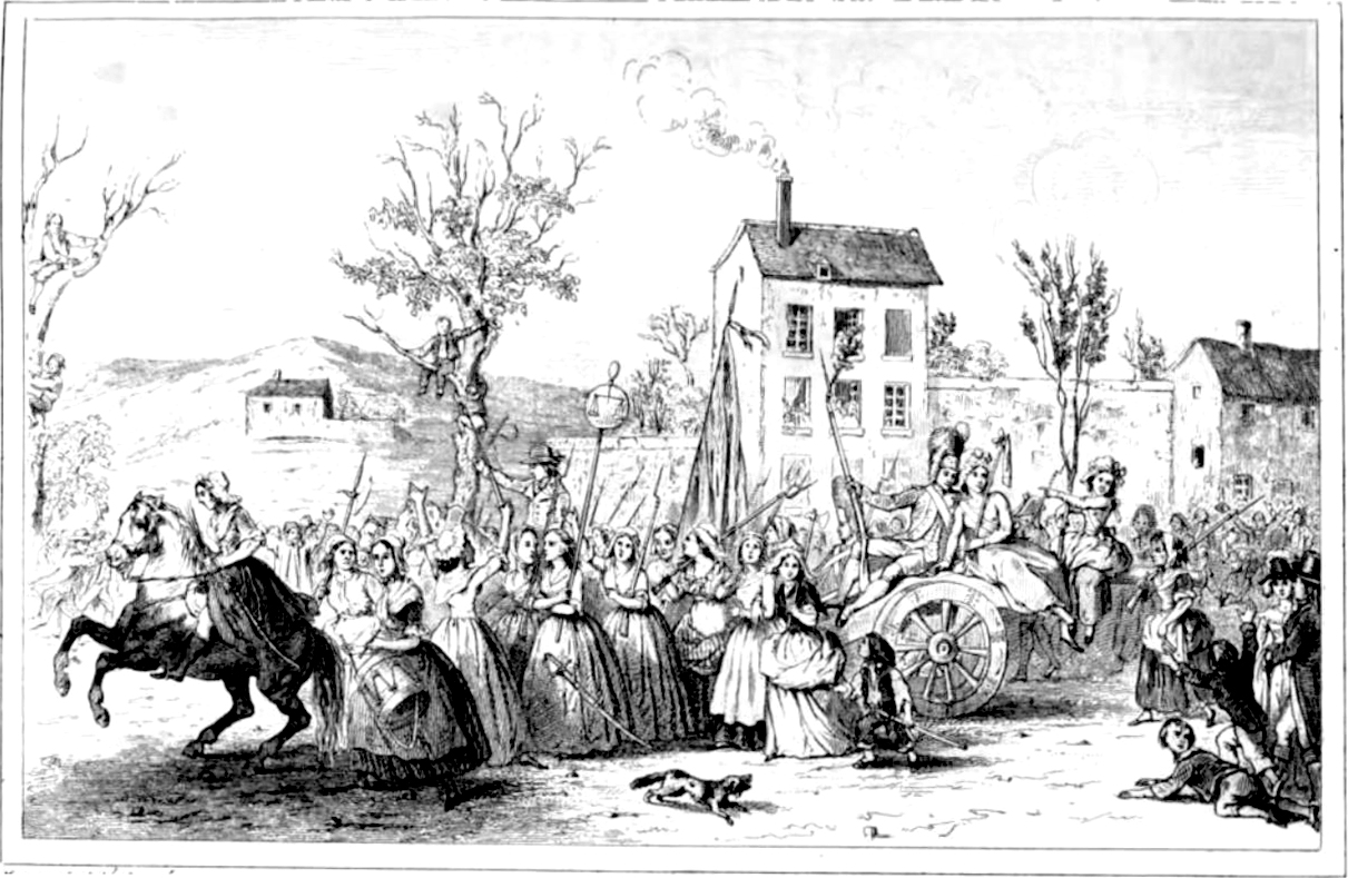 The March of Women to Versailles on the 5th and 6th of October 1789.